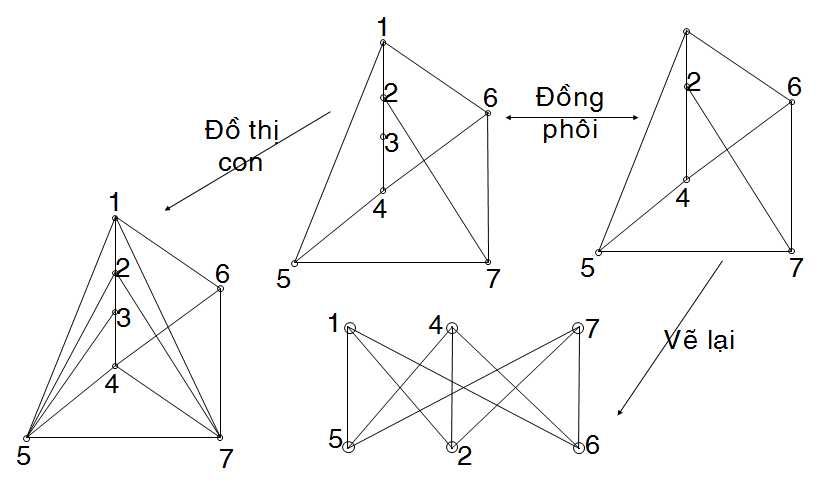 Định lý Kuratowski